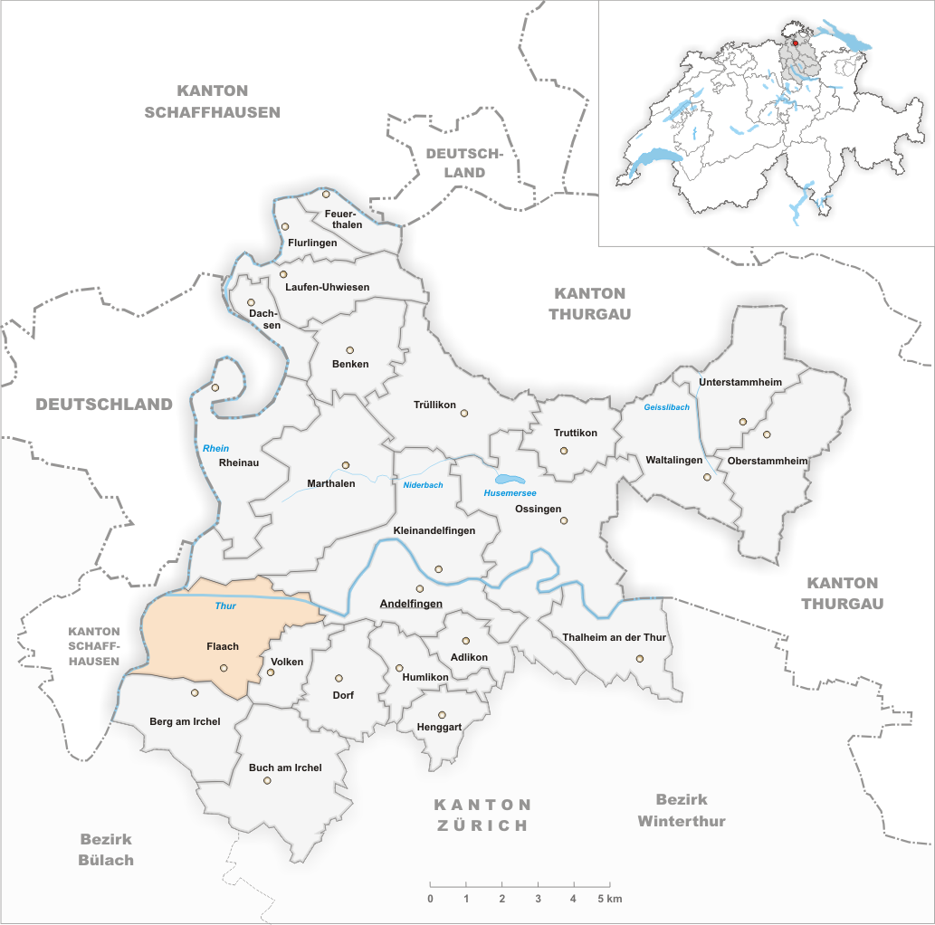 Municipality Flaach